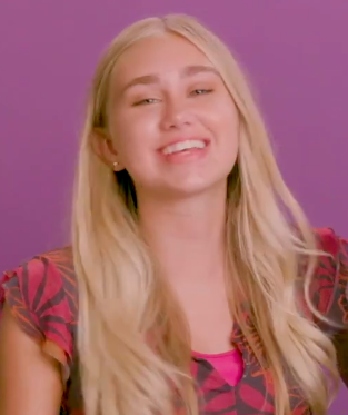 Emily Skinner on NickRewind in October 2019